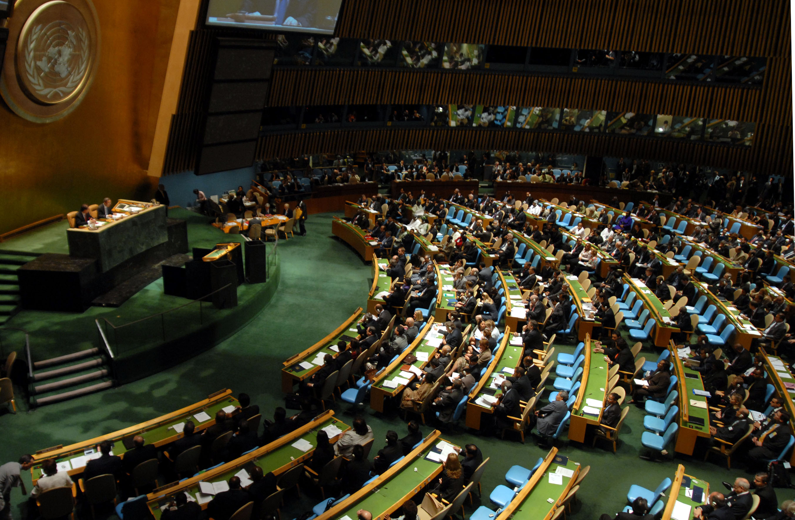 Representatives of member-countries have a meeting on the global environmental situation on the eve of the opening of the 62nd Assembly General of the United Nations, in New York City, USA